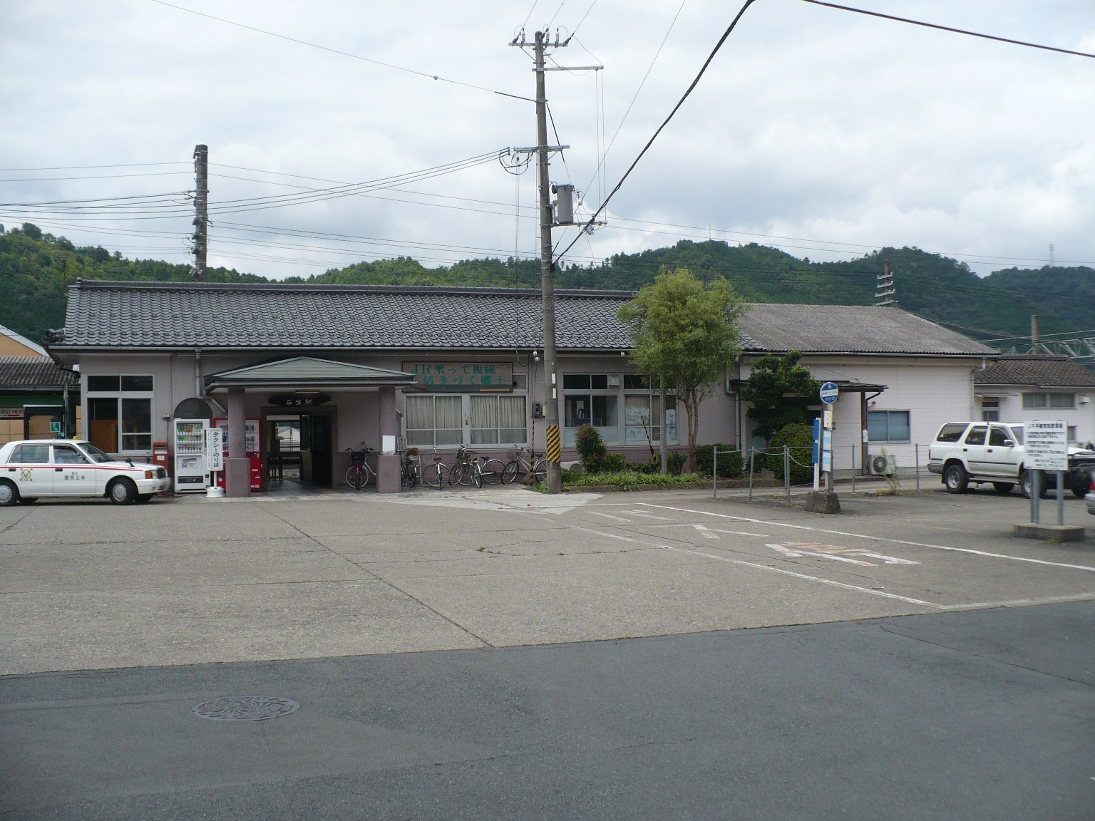 East side building of Isou station of JR West Fukuchiyama line, Tamba, Hyogo, Japan